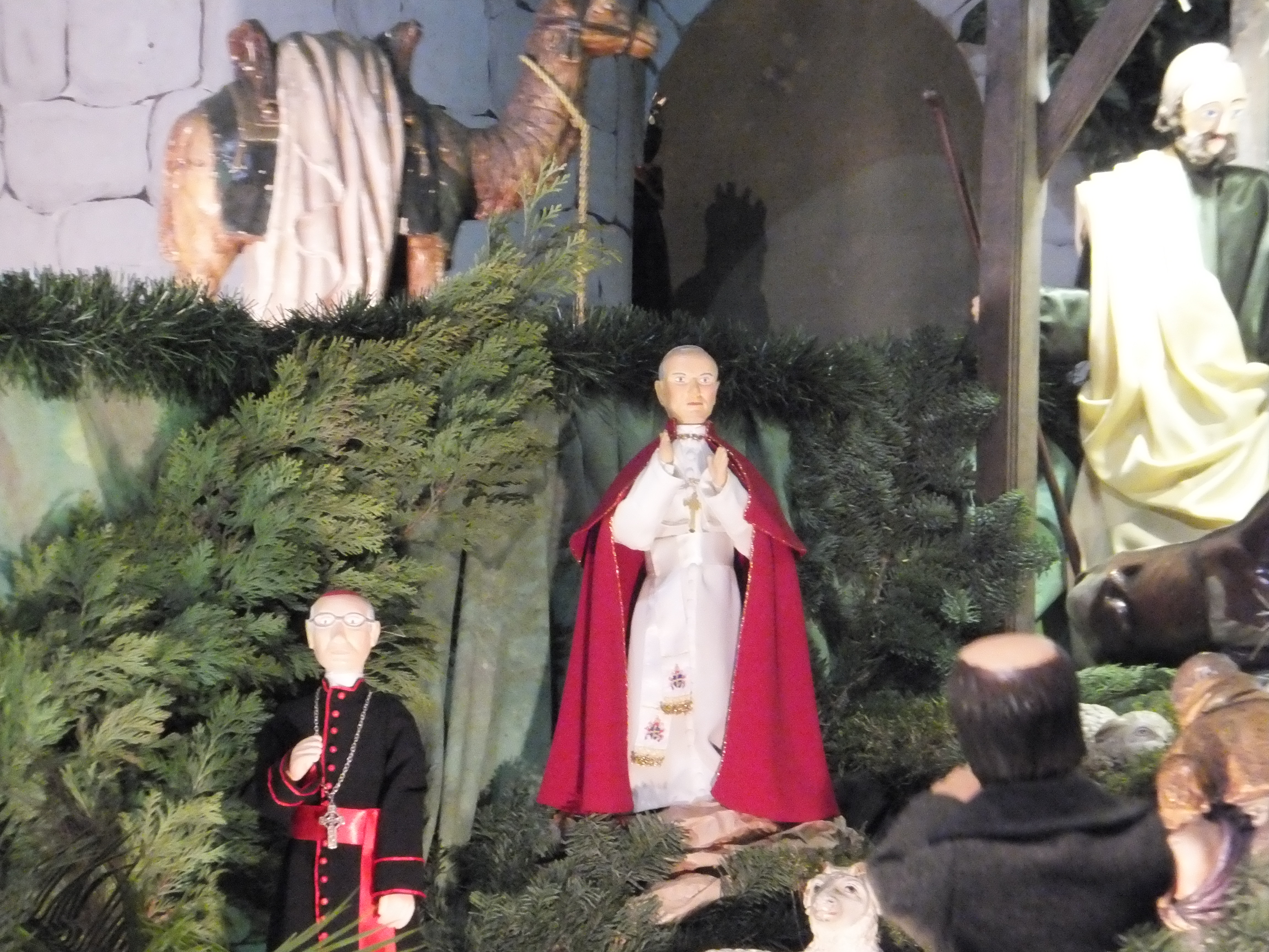 Moving crib in Saint Bartholomew church in Bieruń (Poland). Moving crib is built every year since 1955. It consists of more than 100 figures (most of the figures moving).